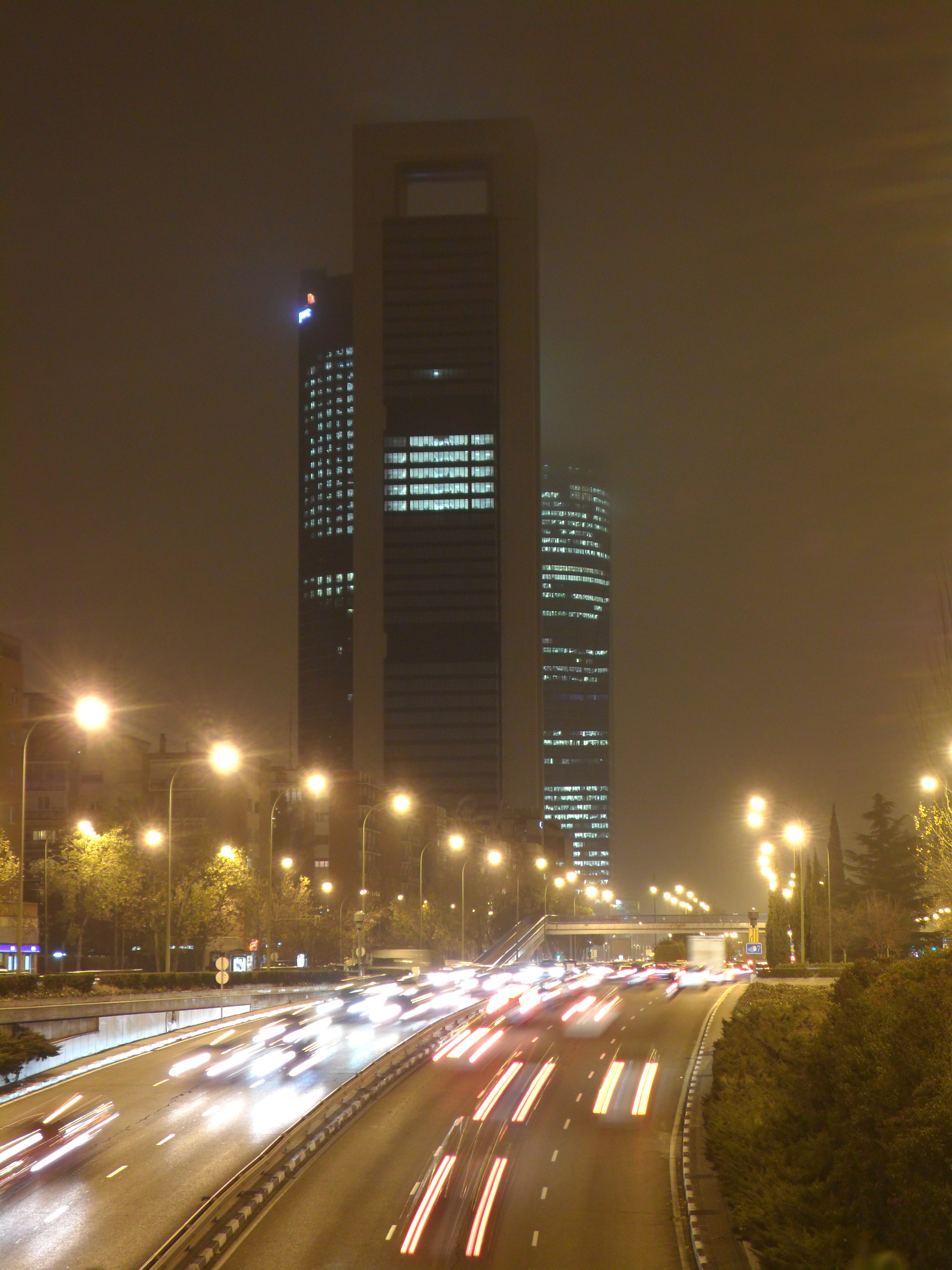 View of Cuatro Torres Business Area in Madrid (Spain) at night.